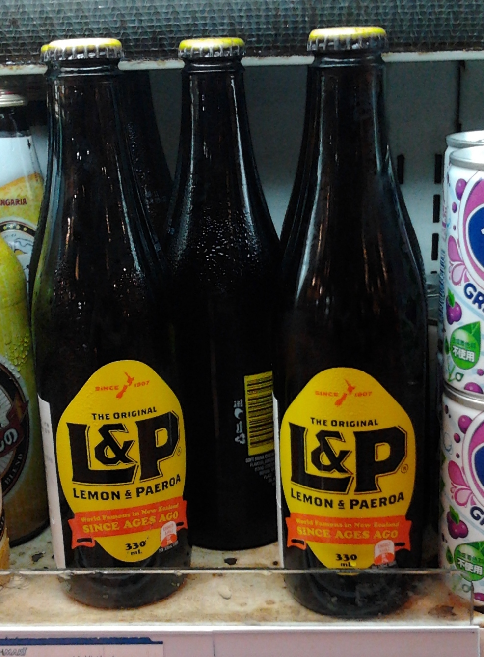 Lemon and Paeroa soft drink on sale in Shanghai, China. (2011)